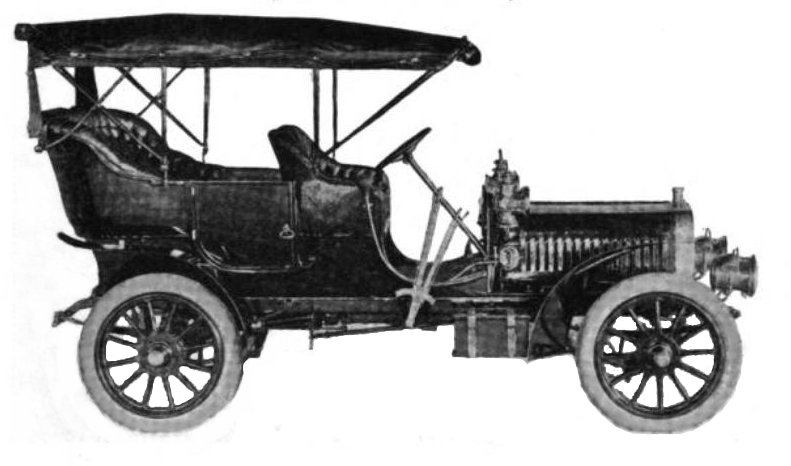 From Google Books archive: Title Automobile trade journal, Volume 10 Publisher Chilton Company, 1906 Original from the University of Michigan Digitized Oct 2, 2007